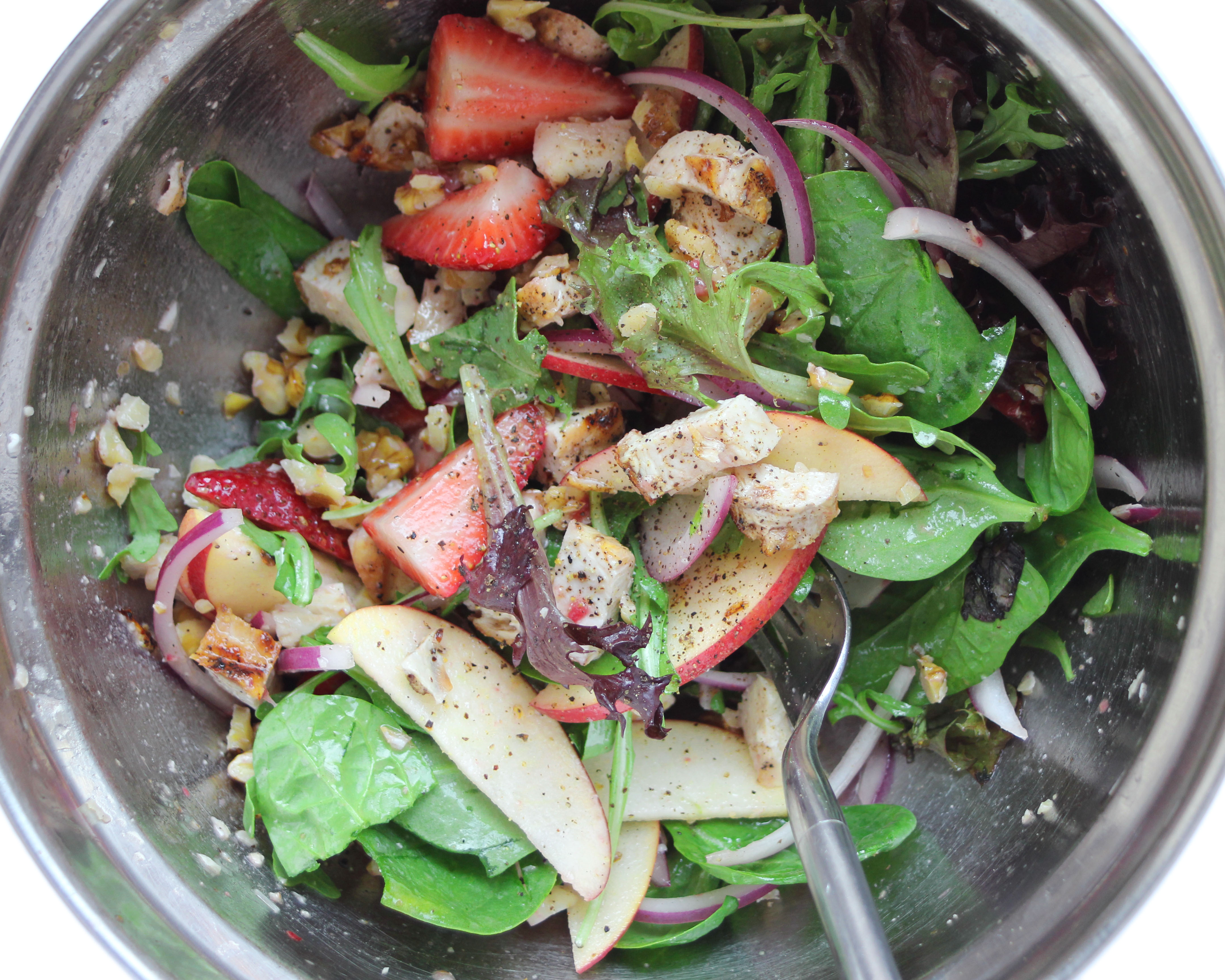 Photo of a healthy salad with chicken, nuts, and strawberries.